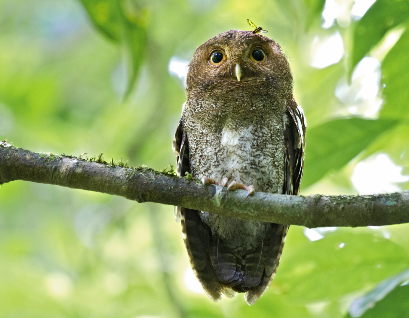 Perched on a branch at Bijagua, Costa Rica. For more visit